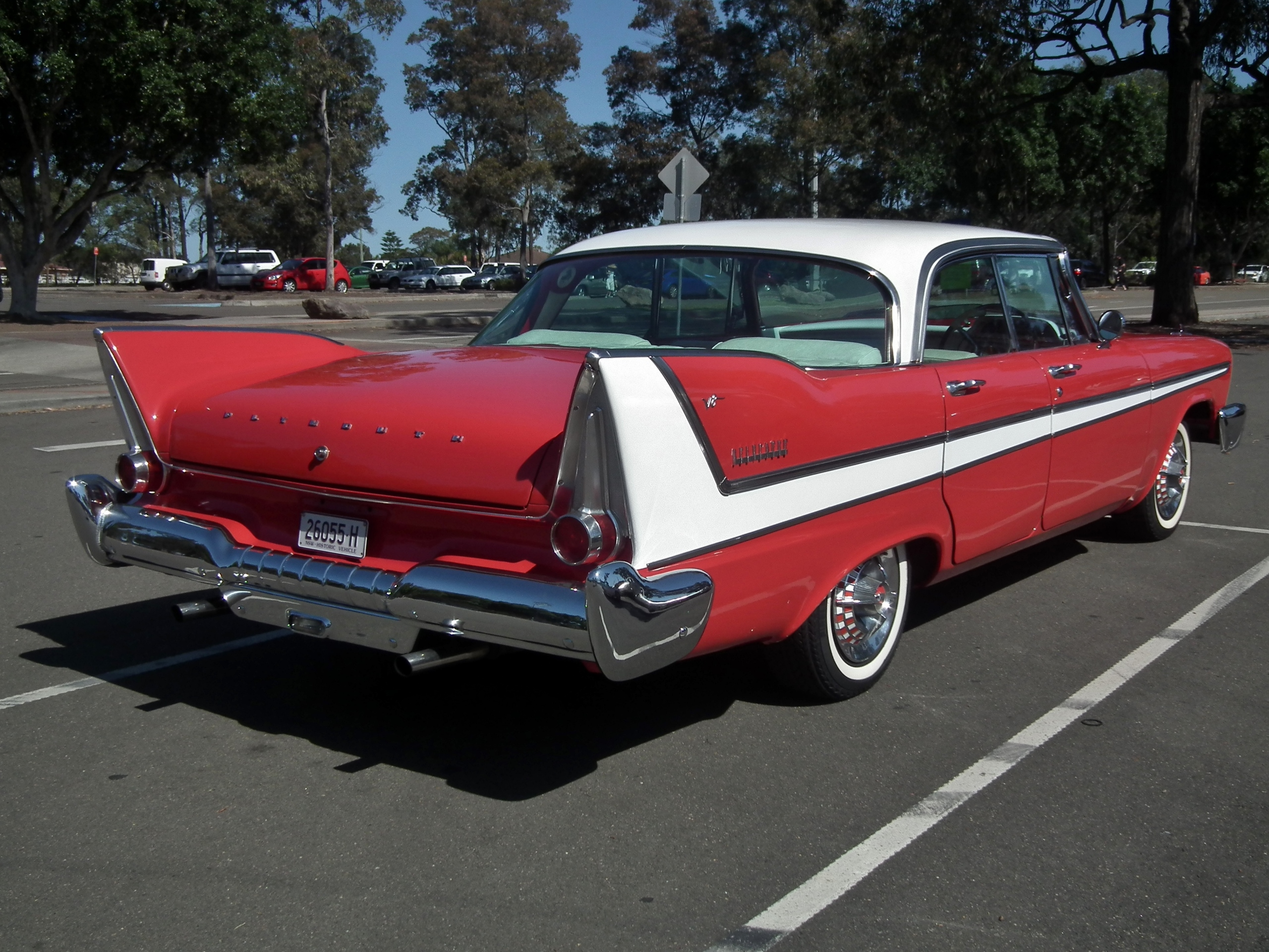 1958 Plymouth Belvedere hardtop sedan. Taken in the carpark outside the 2014 New South Wales All Chrysler Day, held at Fairfield Showground, Prairiewood, Sydney.